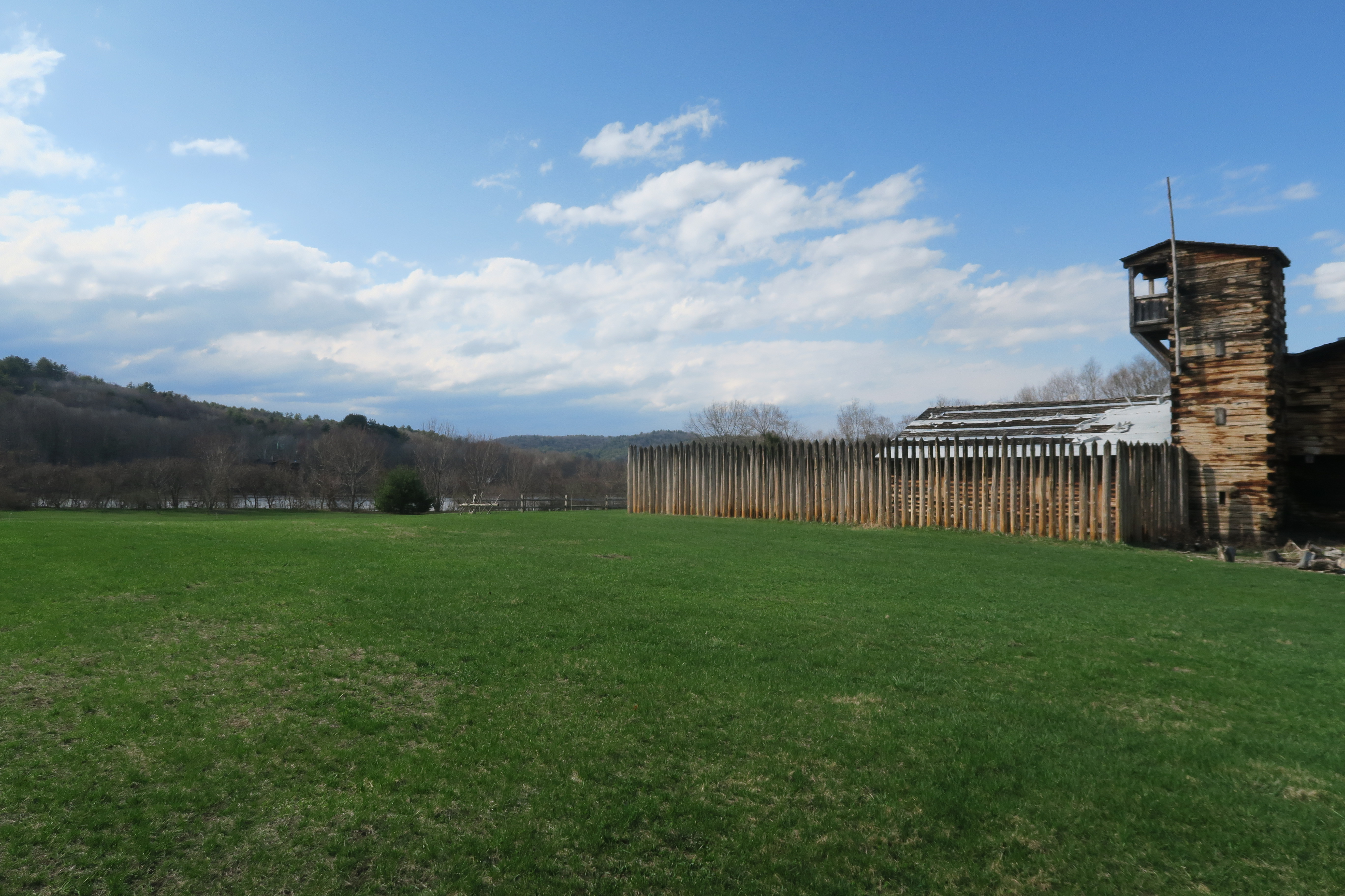 Fort at Number 4, view, Charlestown New Hampshire